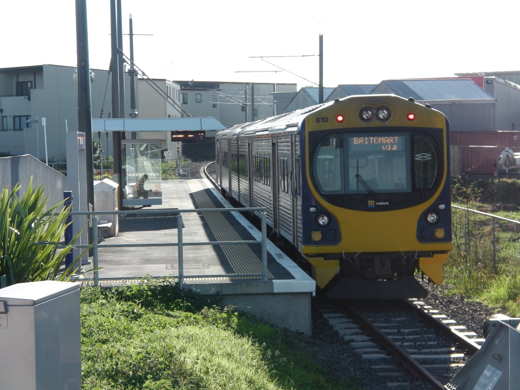 ADL 810 at Onehunga Station, with not-yet-commissioned electrification infrastructure installed